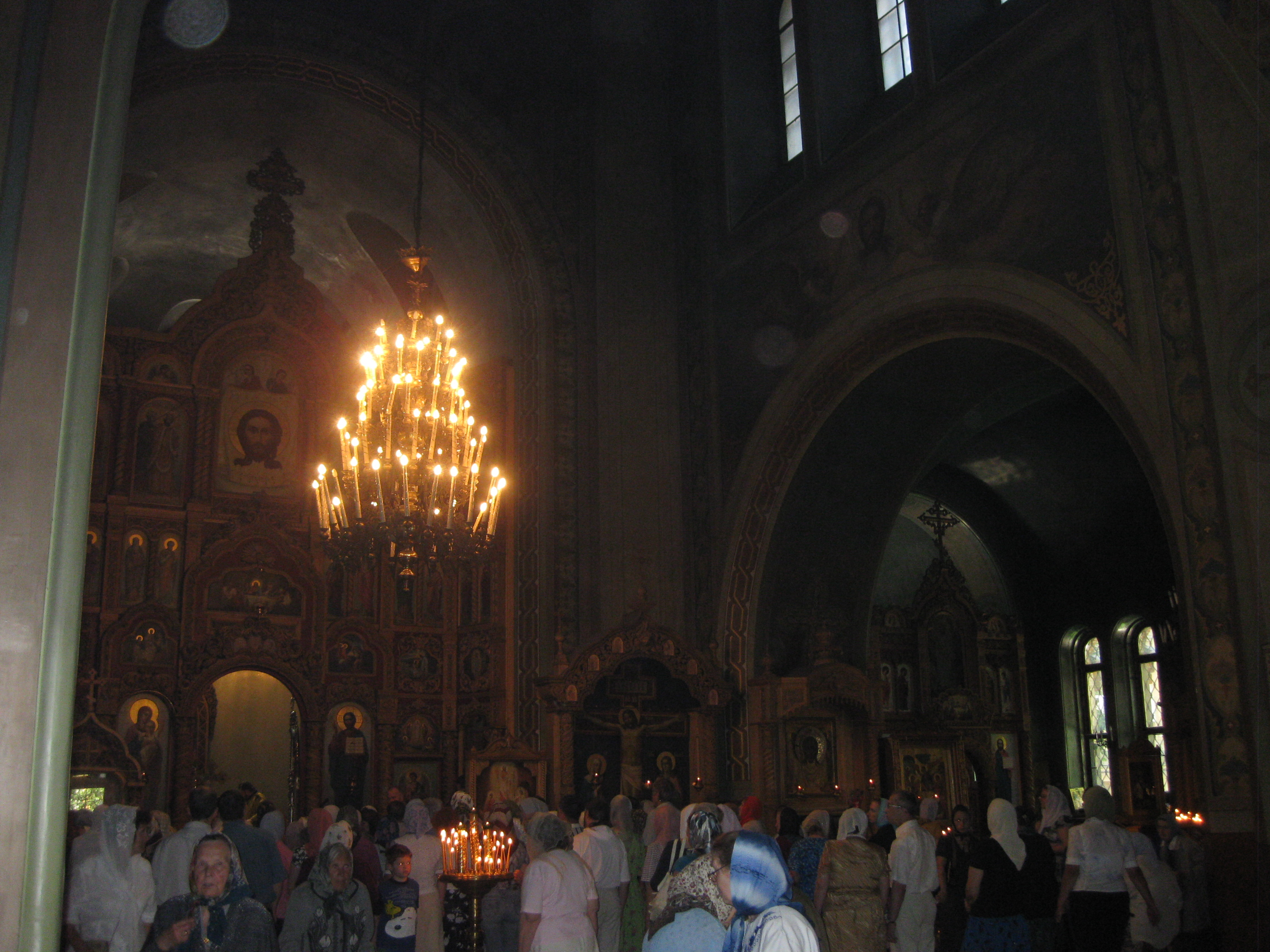 Church of Our Merciful Saviour, 177a Gorky St, Nizhny Novgorod.